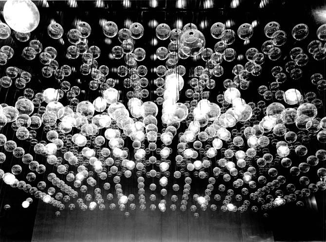 Atatürk Kültür Merkezi Grand Foyer, lighting fixtures esigned by Johannes Dinnebier Print: Foto Akademi SALT Research, Hayati Tabanlıoğlu Archive Atatürk Kültür Merkezi Büyük Fuaye'de Johannes Dinnebier tasarımı aydınlatma elemanları Baskı: Foto Akademi SALT Araştırma, Hayati Tabanlıoğlu Arşivi